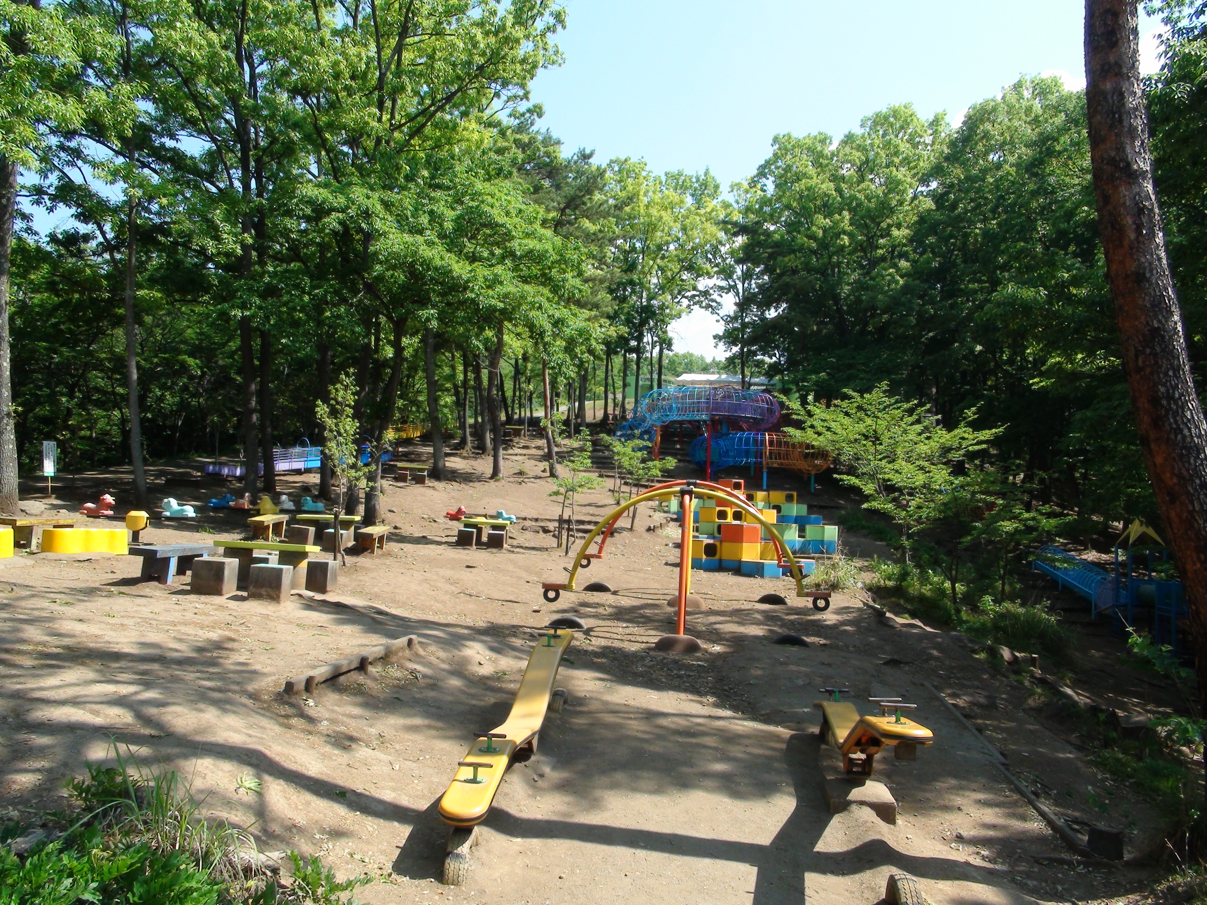 Yamanashi Prefectural child institution Atagoyama-Kodomonokuni